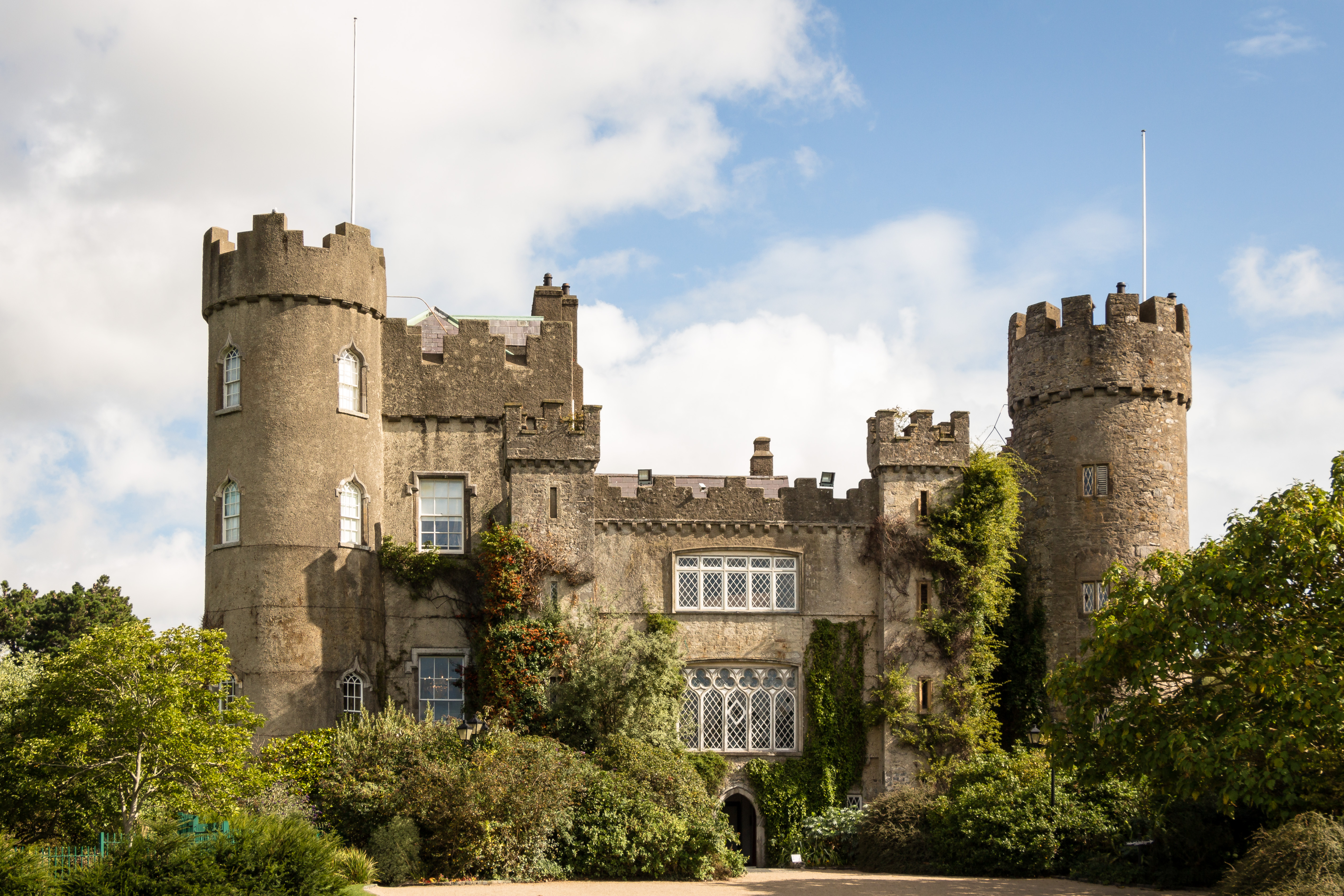 Lismore, Malahide Castle. Wikidata has entry Q2661381 with data related to this item.